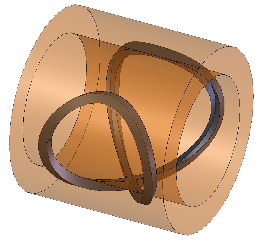 A transparent 3D model of a graphite filled groove bushing, specifically showing the groove shape.